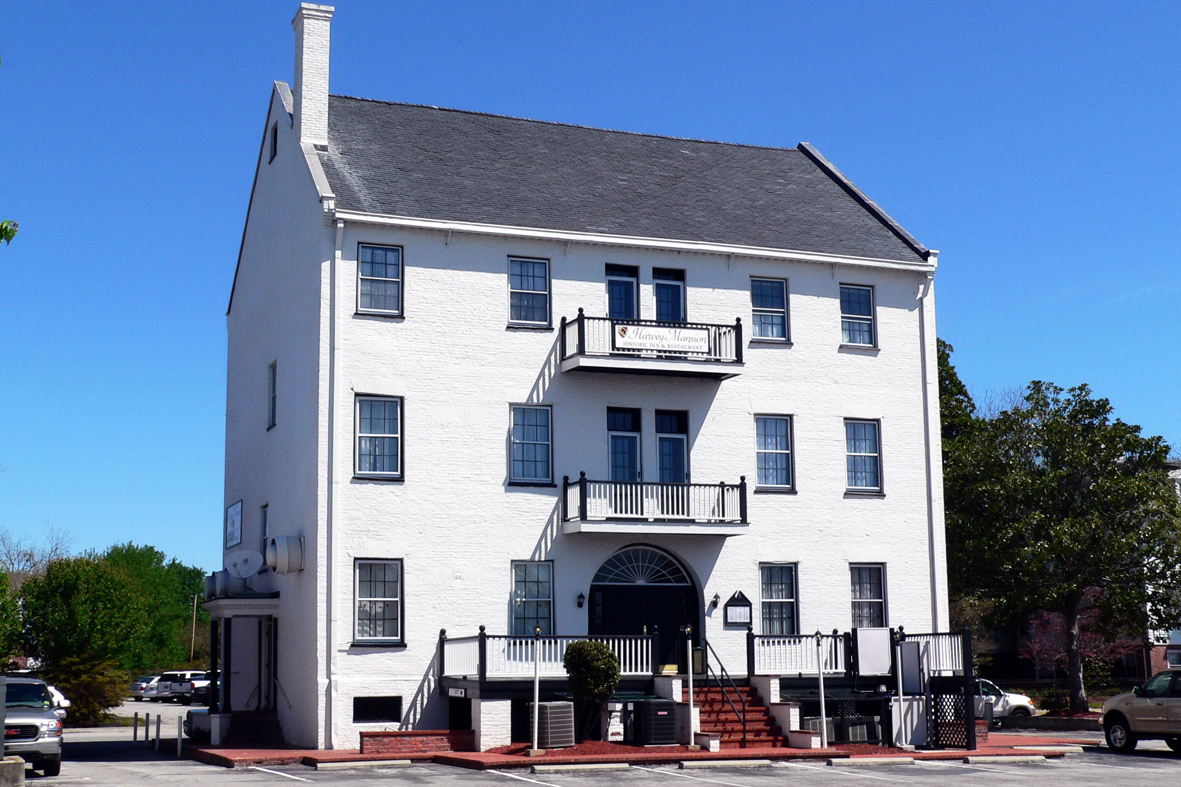 Federal style brick structure built by John Harvey, ship owner and merchant. The building served as an unusual combined residence, office, and storage area for his mercantile enterprises.